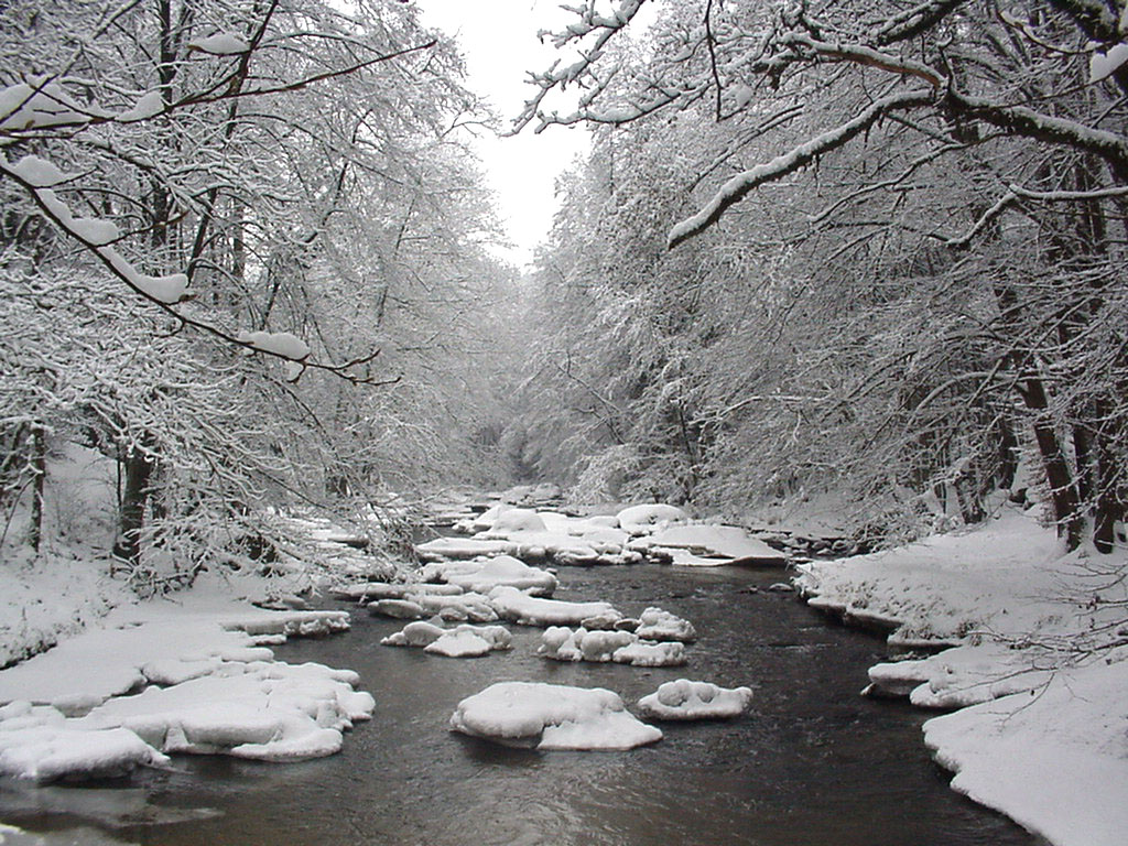 Feldaist river near Pregarten